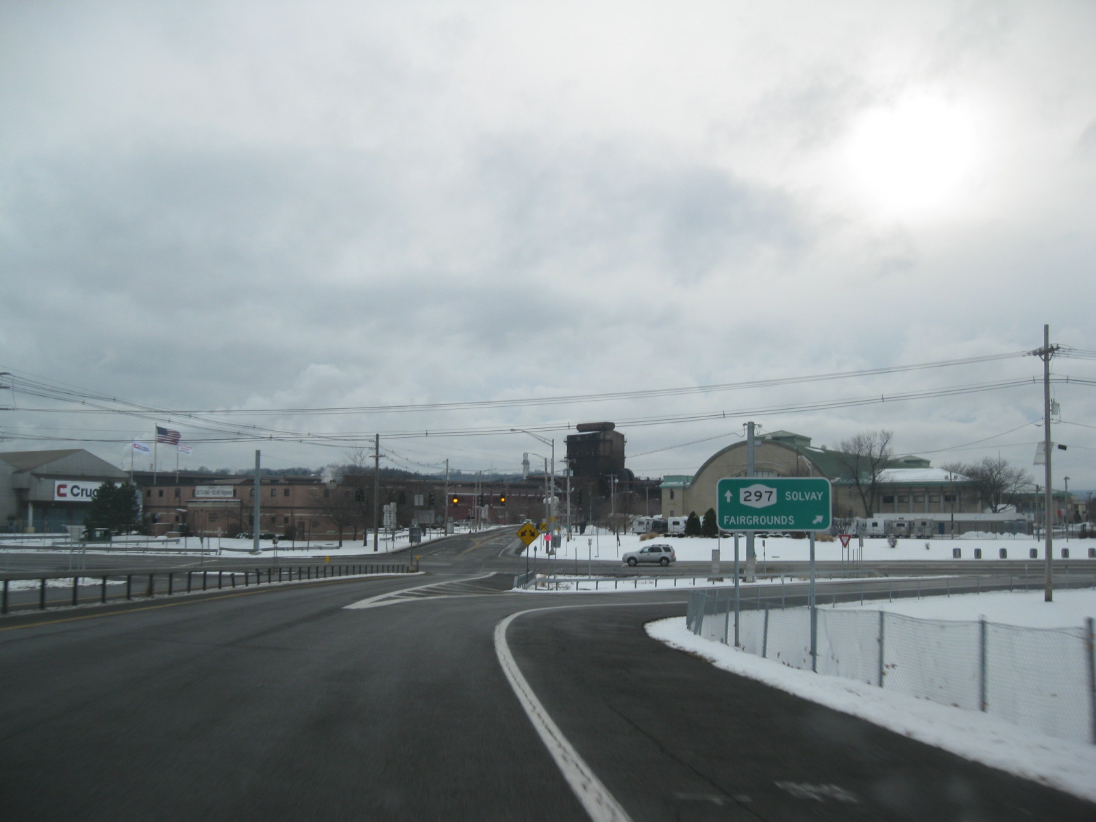 New York State Route 297 at a partial interchange with the access road to the New York State Fairgrounds.